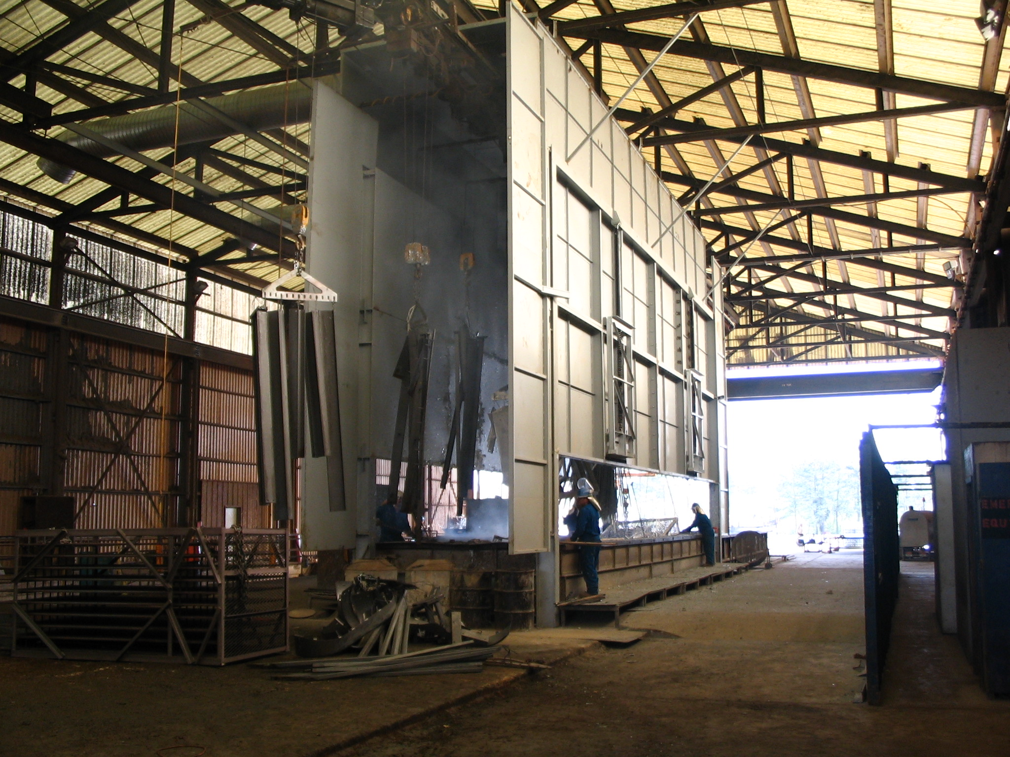 I took this picture during a tour of Aztec Galvanizing's facility in Waskom, TX. Picture taken 3/22/07.